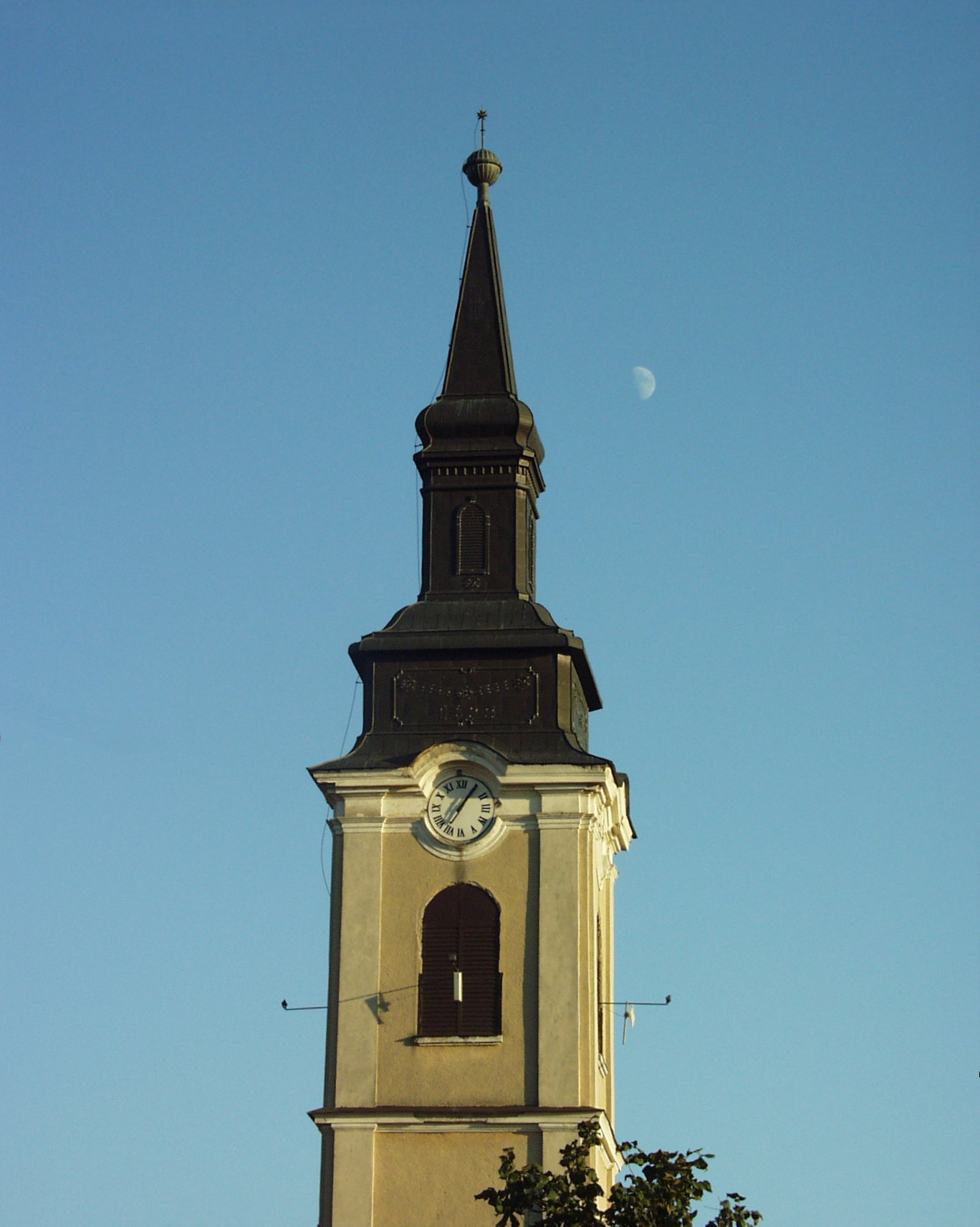 Church and Moon. (In memoriam Bay Zoltán.)